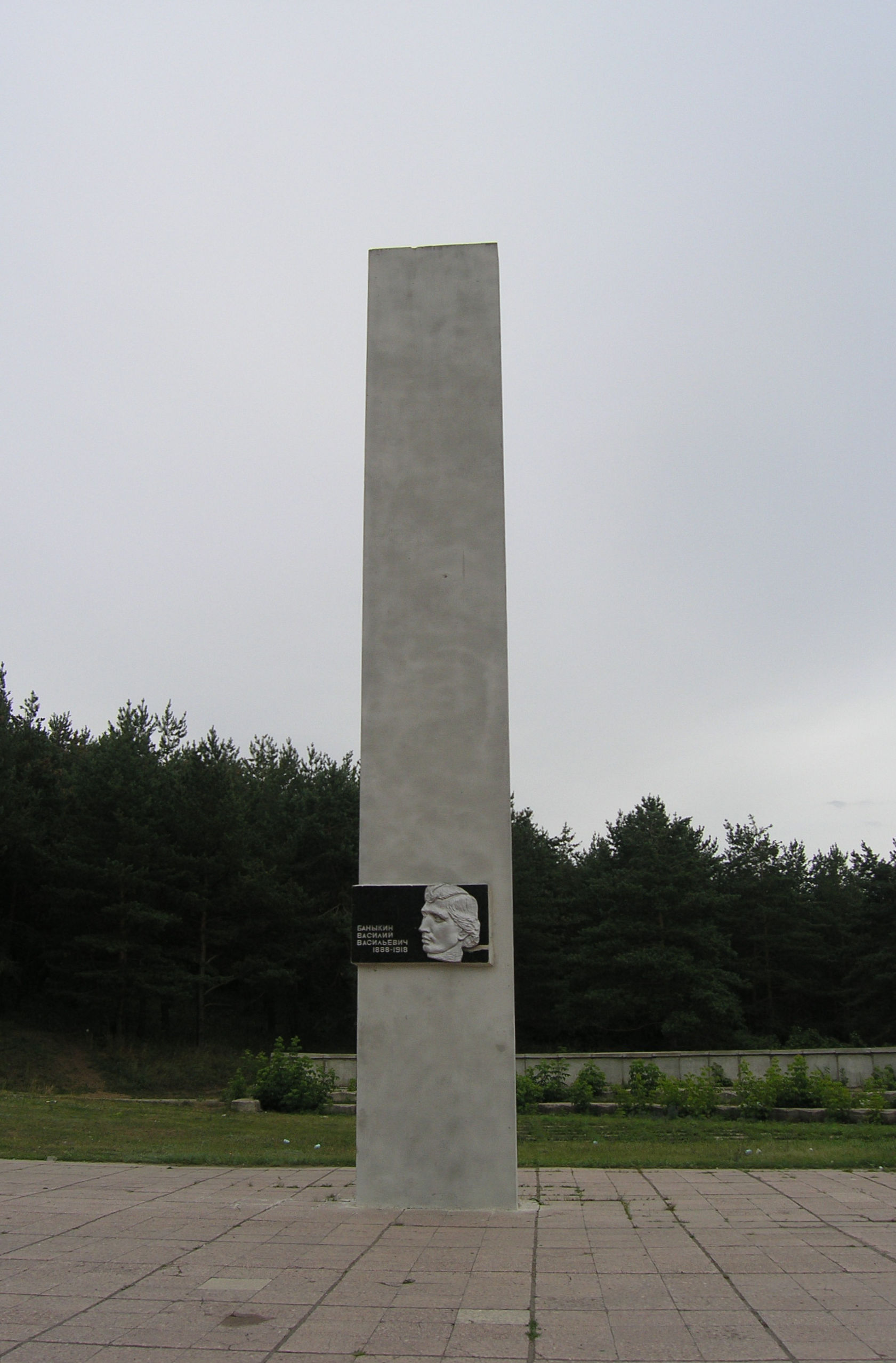 Monument of Vasily Banikin, Togliatti, Russia